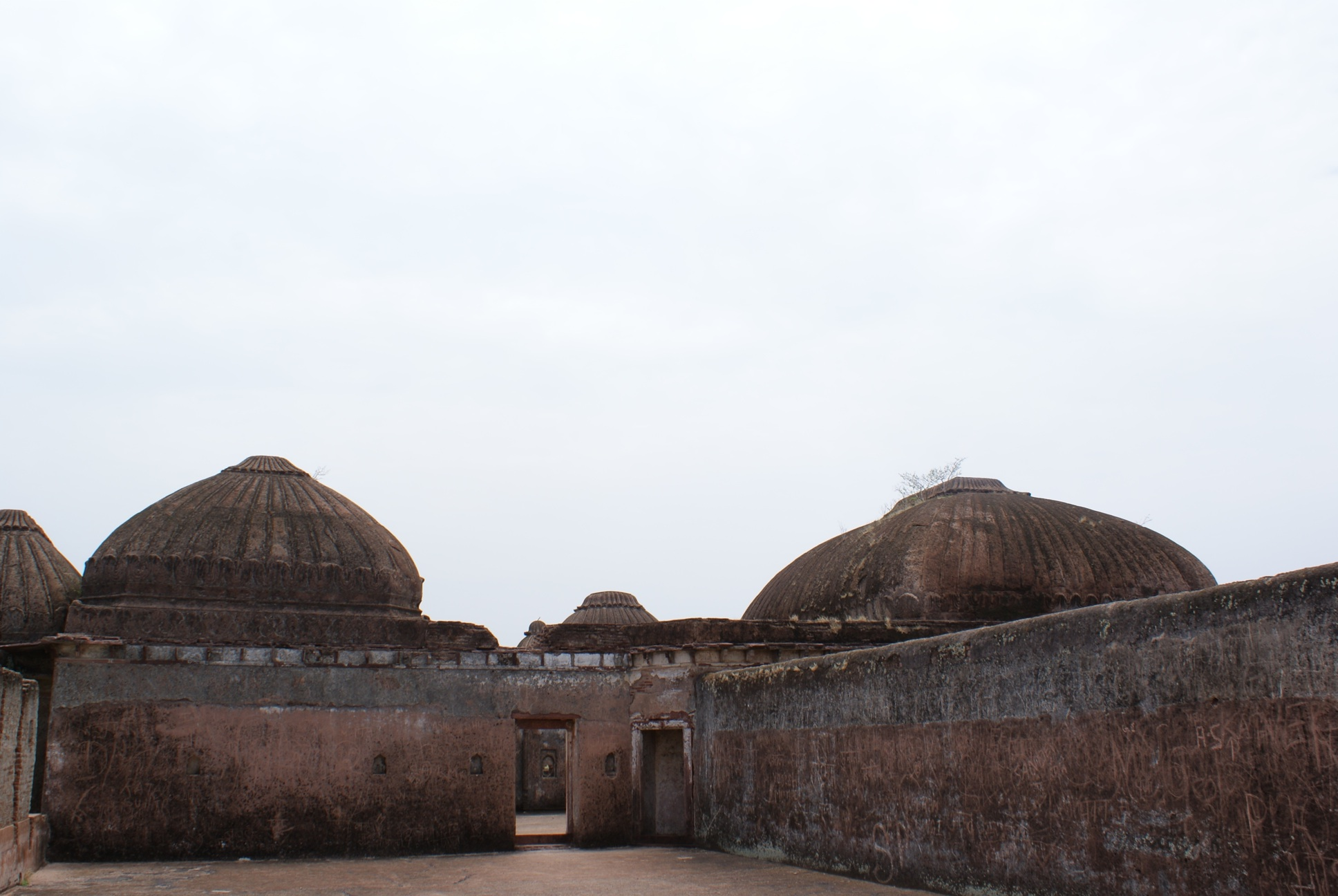 This is a pic taken of the fort in Narsinghgarh.